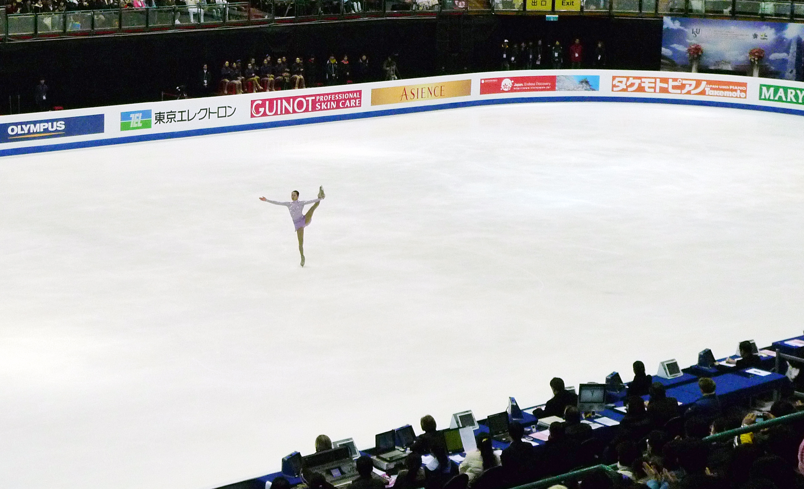 2011 Four Continents Figure Skating Championships 四大洲花式滑冰錦標賽, February 15 – 20, Taipei Arena, Taipei, Taiwan